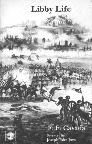 This is the cover of the book "LIBBY LIFE: Experiences of A Prisoner of War in Richmond, Virginia, 1863-64"